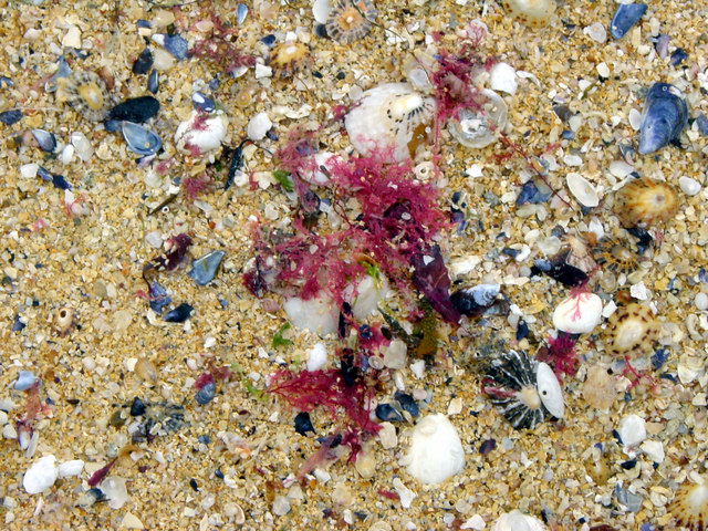 Detail of shell sand making up the beach between Borve & Scarista